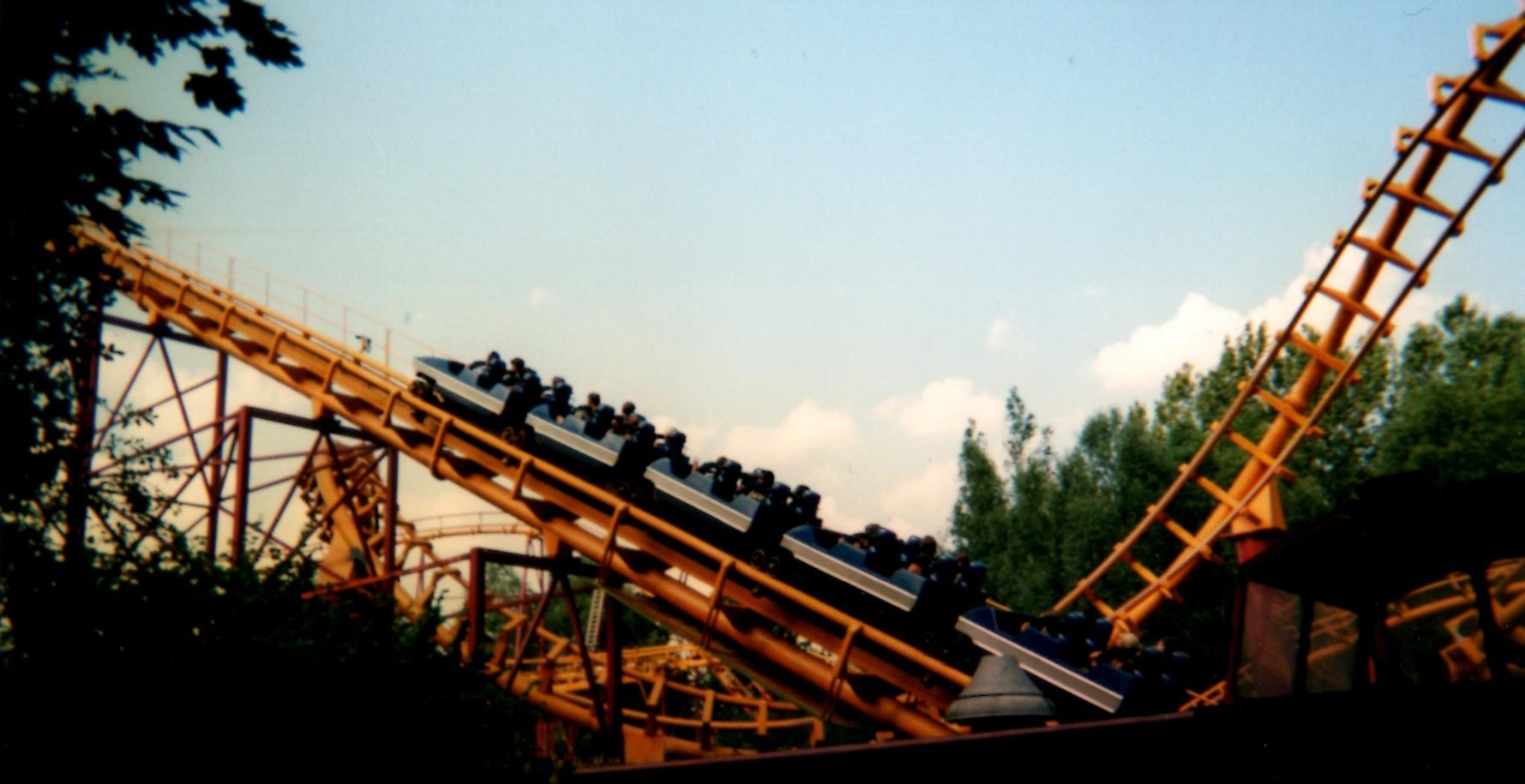 Tornado, Walibi Belgium, Belgium.